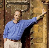 Tim Rawle Detail from a photograph by Katie Rawle of Tim Rawle, 2005. Copyright Katie Rawle. Picture taken from dust-wrapper. Thumbnail for identification only and a replacement cannot be readily found. (This image was originally uploaded with an attempt at a nonfree rationale. That failed, so the image was deleted. Someone arranged to contact the copyright holder to provide permission so the images been restored.)